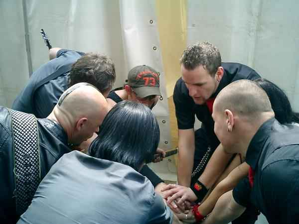 Nu Pagadi